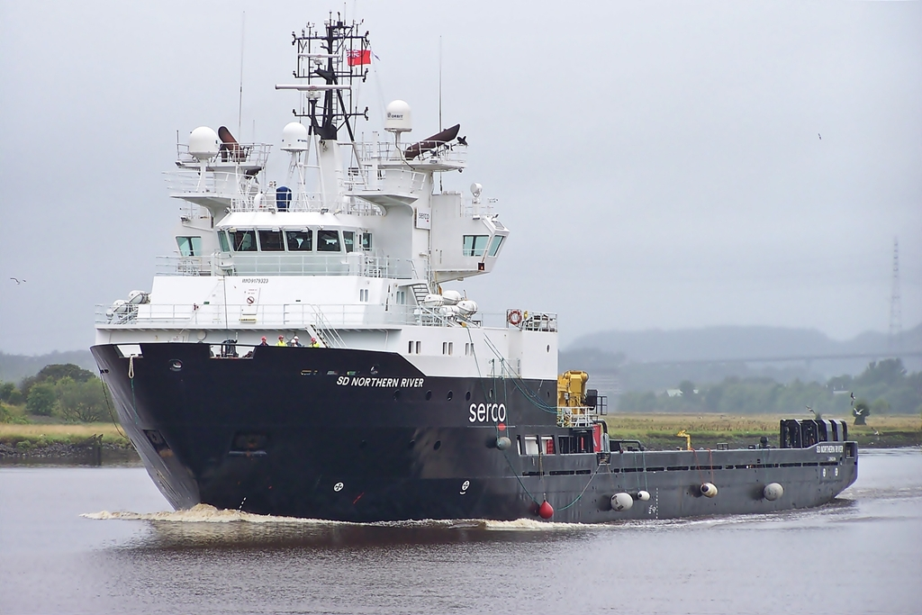 SD Northern River passing Clydebank enroute to Glasgow